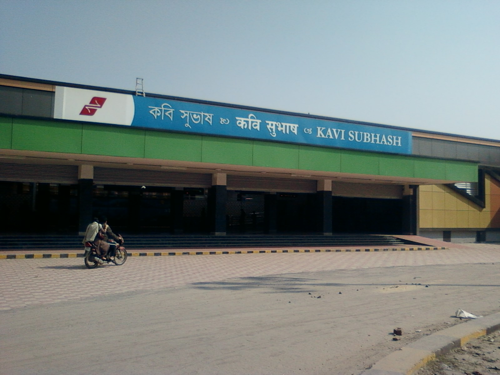 New Garia Metro Station